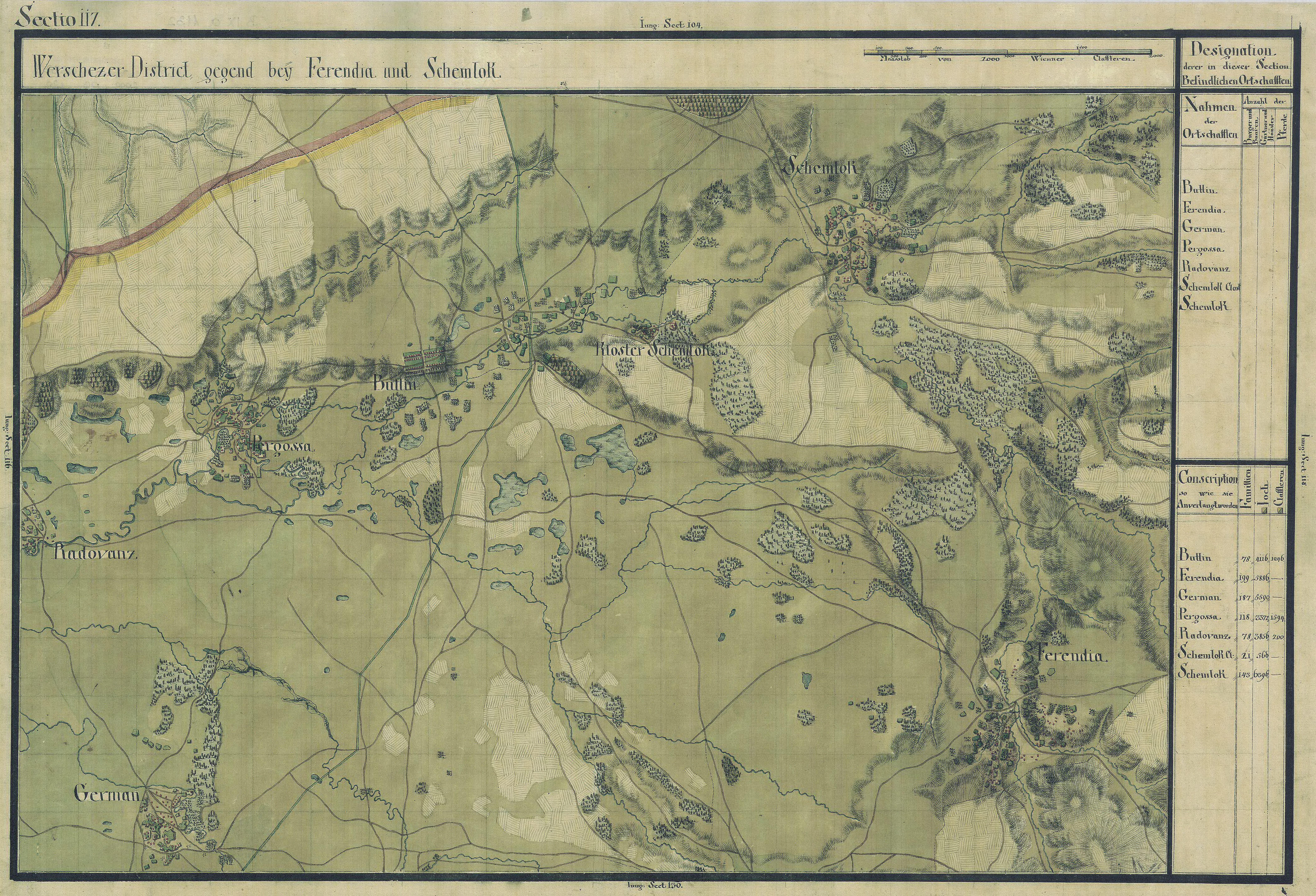 The Banat region in the cadastral maps: Josephinische Landesaufnahme, 1769-72. Josephinische Landaufnahme pg117